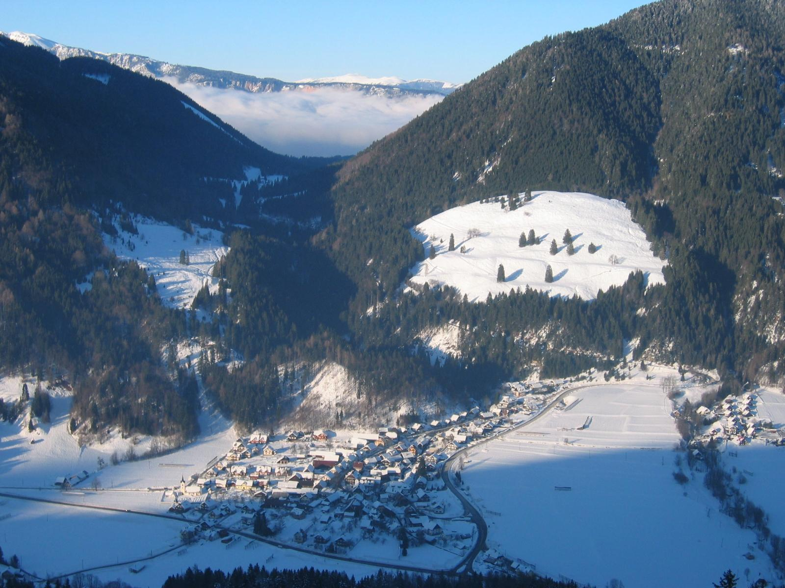 Slovenian village Podkoren and Koren Pass ("Korensko sedlo"; german: Wurzenpass - border with Austria). Photo taken from ski-slope named Podkoren. Author: Sl-Ziga 18:18, 12 December 2005 (UTC)